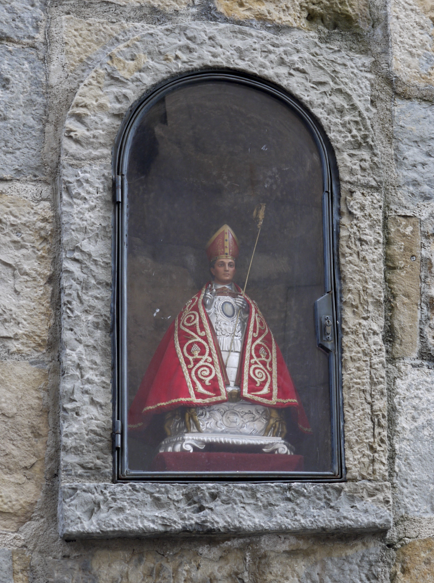 Saint Fermin, co-patron for the running of the bulls, ikon at La cuesta de Santo Domingo, Pamplona, Spain